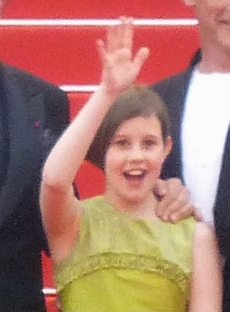 Kristie Macosko, Frank Marshall, Kathleen Kennedy, Kate Capshaw, Steven Spielberg, Ruby Barnhill, Mark Rylance, Claire van Kampen, Lucy Dahl, Penelope Wilton, Rebecca Hall and Jemaine Clement at the world premiere of The BFG, 2016 Cannes Film Festival